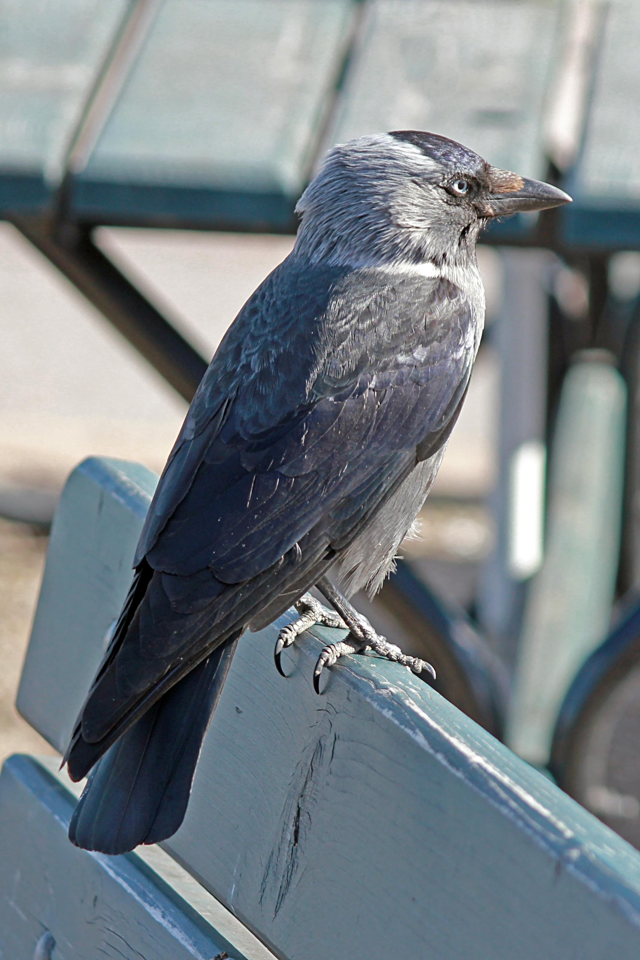 Jackdaw (Corvus monedula) on a bench at a snack bar in Hedemora, Sweden.